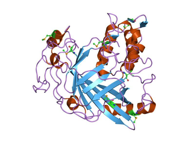 Cartoon representation of the molecular structure of protein registered with 1vpr code.